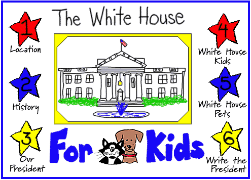 "White House for Kids" homepage, during the presidency of Bill Clinton, in 1999